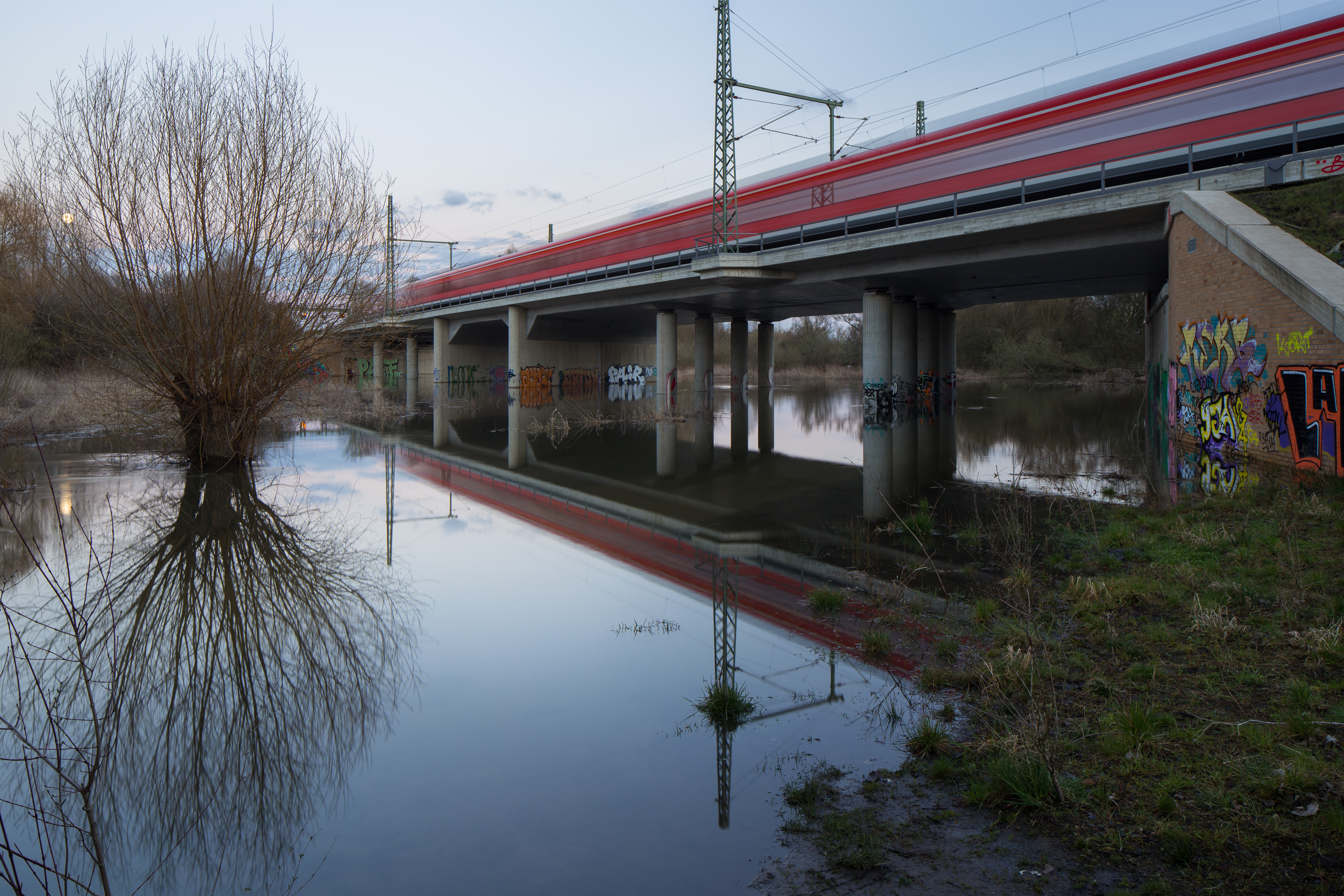 Railroad bridge of the freight train bypass Hannover crossing Ihme river (here flooded) located at Ricklinger Masch in Ricklingen and Linden-Sued quarters of Hannover, Germany.